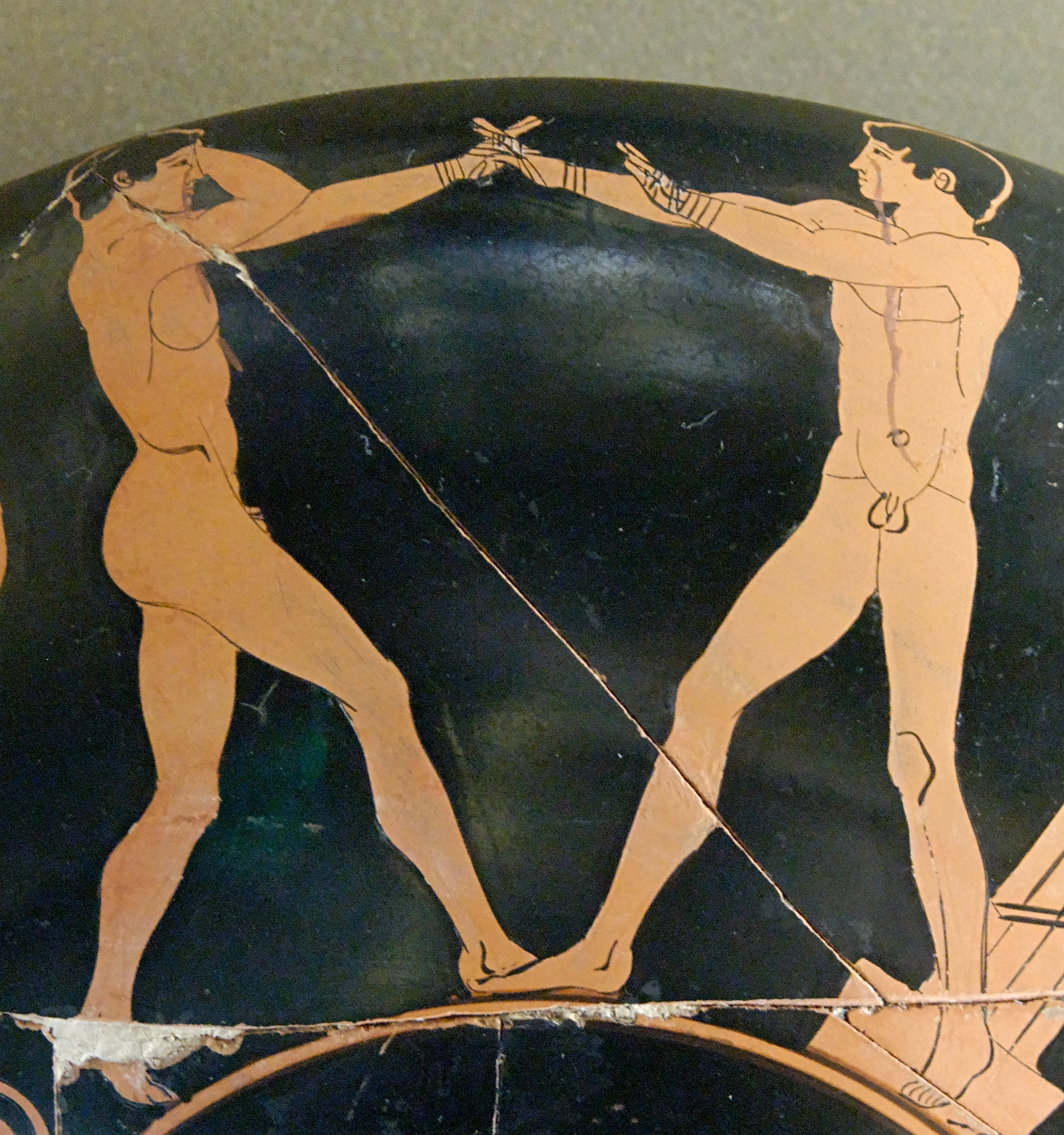 Boxing scene: athletes in guard position. Detail from an Attic red-figure cup, ca. 470 BC. Found in Vulci.